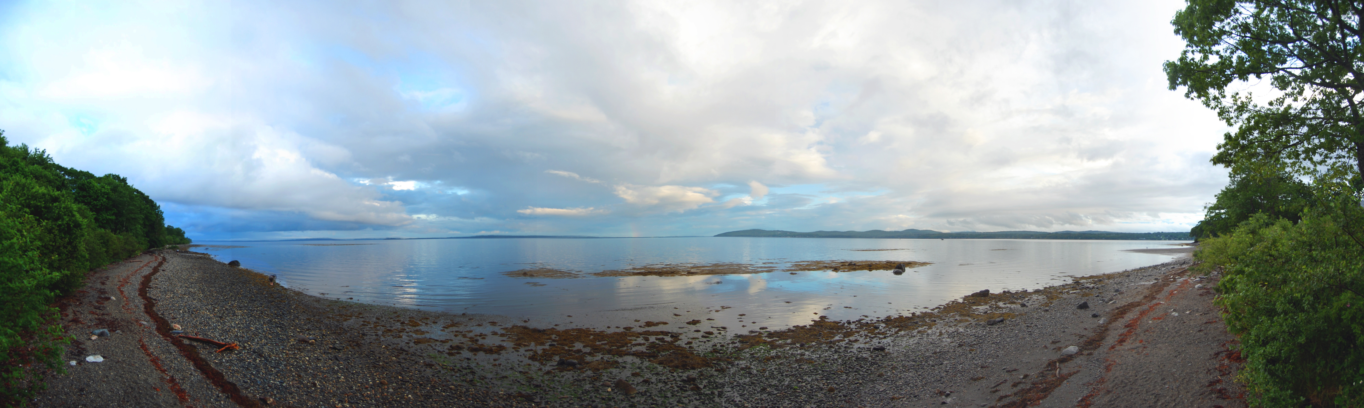 Panoramic view of the Penobscot Bay taken from the shore just east of Belfast near the Searsport town line. Castine is across the Bay to the left, Iselsboro Island stretches across the center, Northport is to the center right, and the mouth of Belfast Bay is beyond the trees to the right.